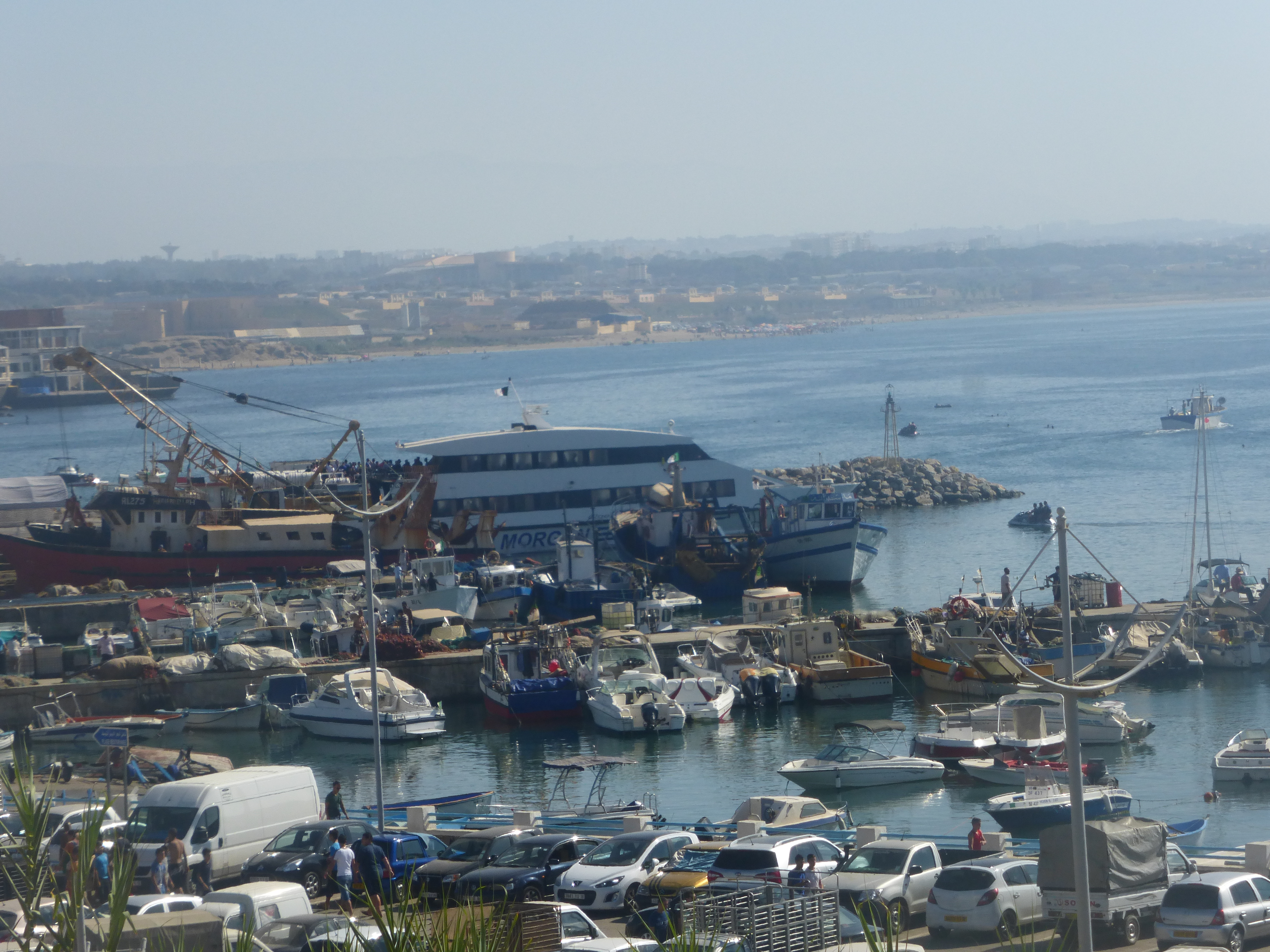 Ischiamar III, italian boat of Capitan Morgan, El Djamila, 5/09/2014